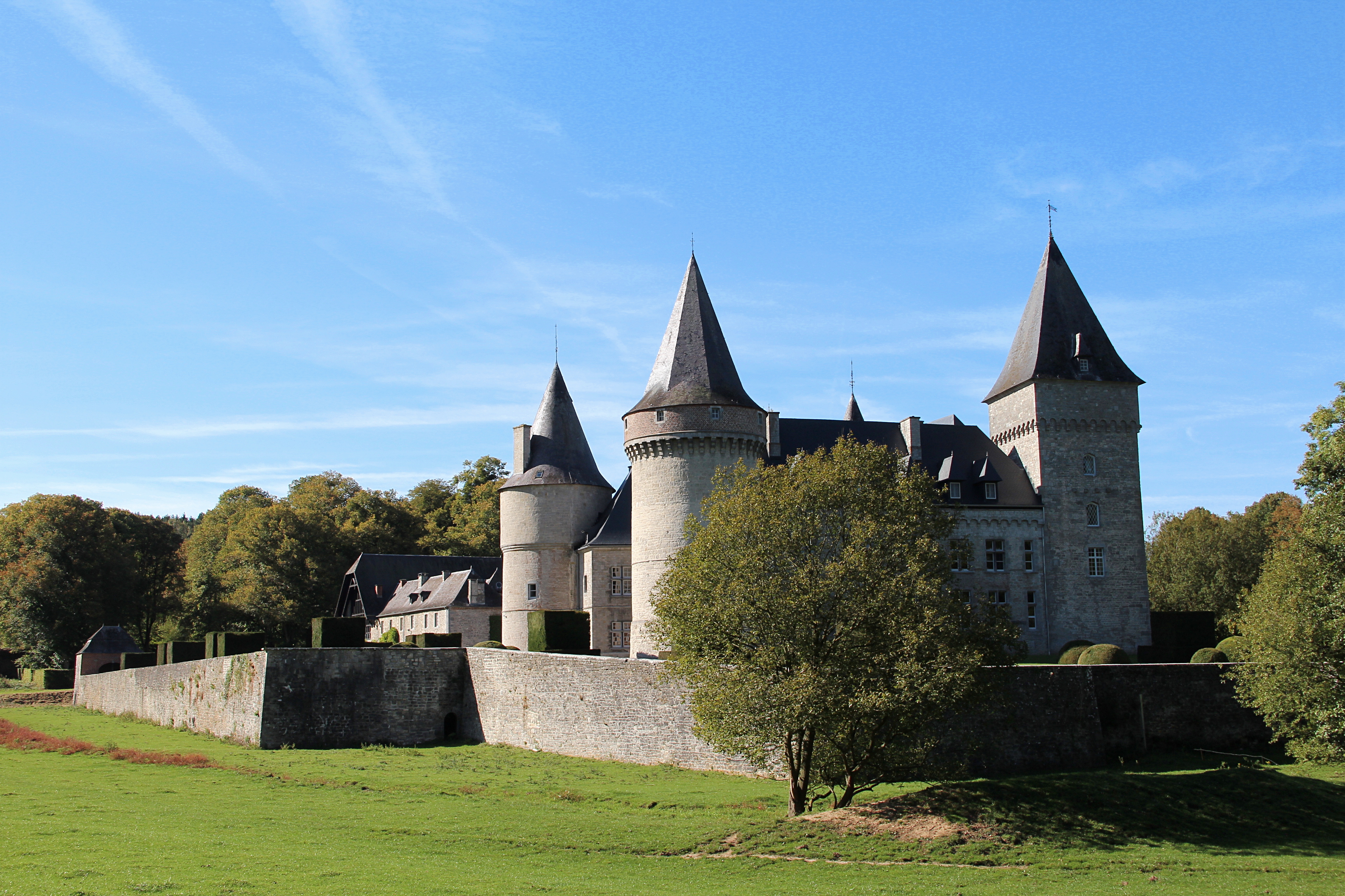 Anthée (Belgium), the "de Fontaine" castle (XVIth century), Onhaye, Belgium.